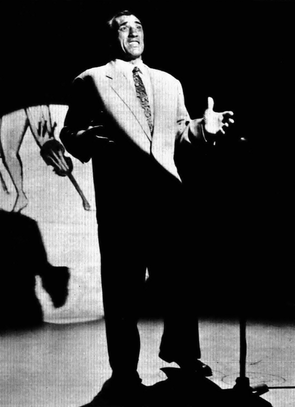 Primo Carnera guest of the Italian TV show Il musichiere